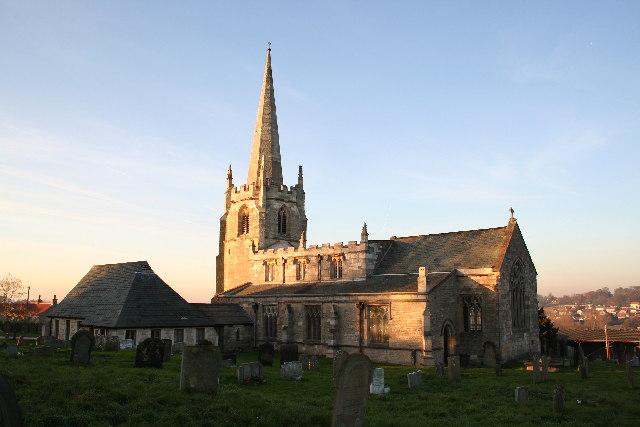 St James' parish church, South Anston, South Yorkshire, seen from the southeast